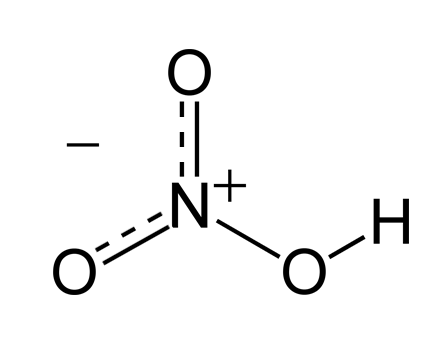 Modified version of Image:Nitric-acid-resonance-A.png, which is PD. Double and single bonds to non-acidic oxygen atoms converted to 1.5 bonds. Mark for negative charge of same oxygen atoms changed to floating between them, since it is shared.